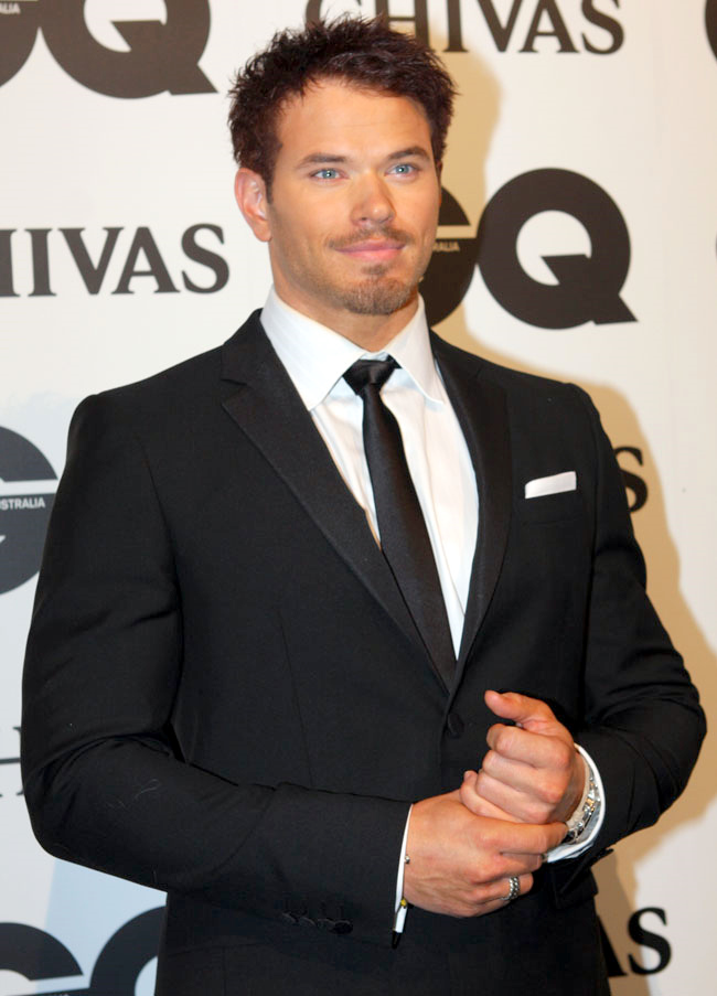 Kellan Lutz at the GQ Men of the Year Awards 2011.